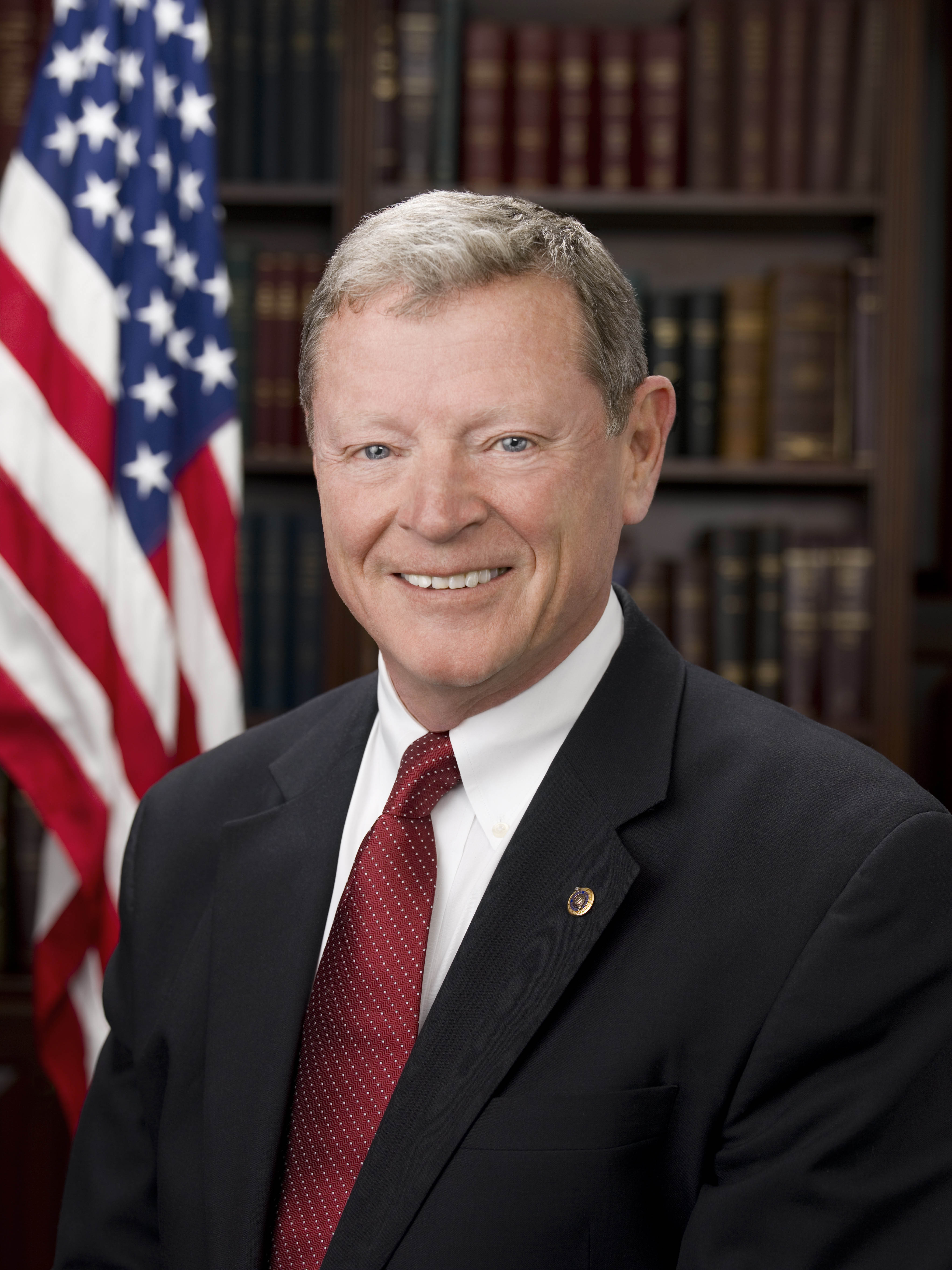 Jim Inhofe, United States Senator photo portrait.